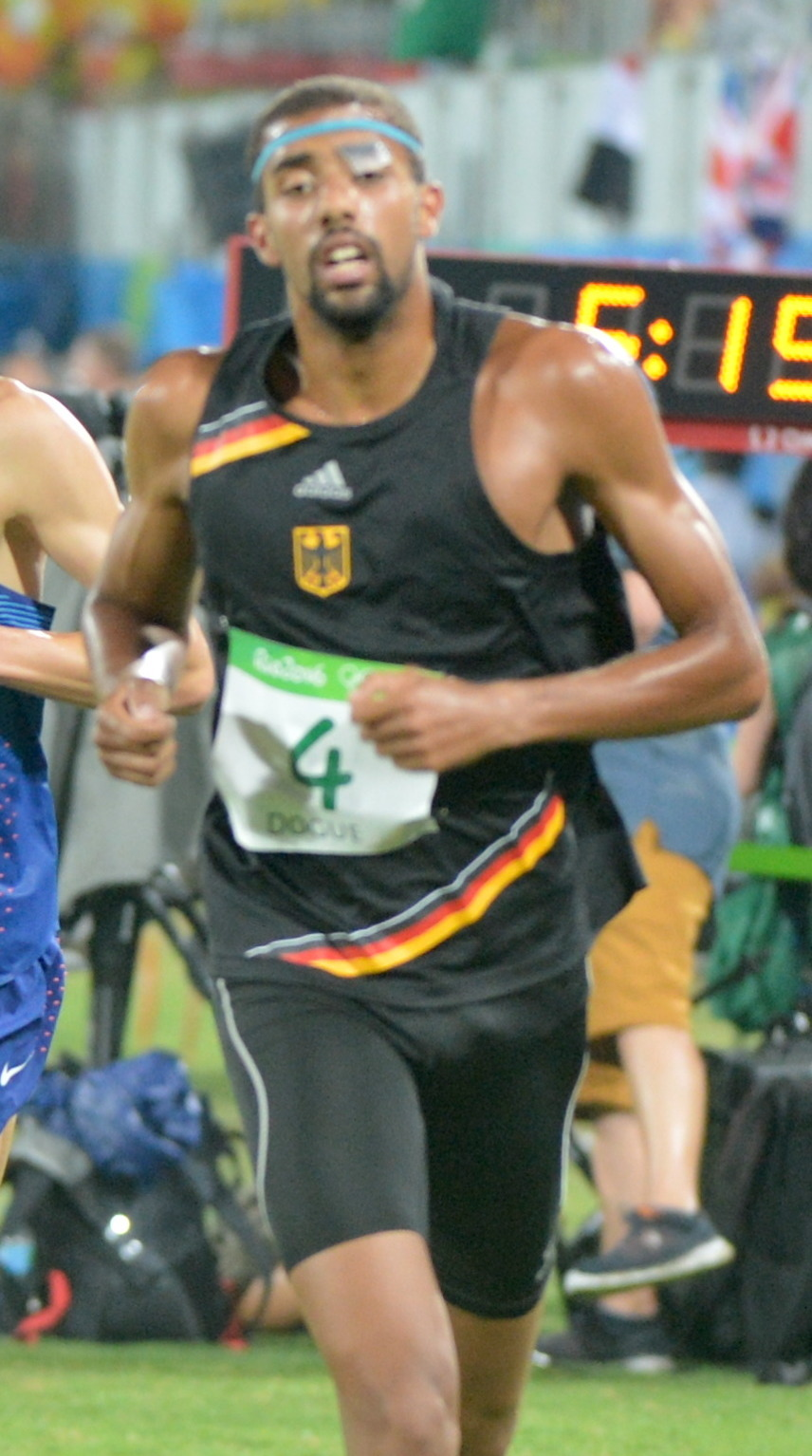 Men's Modern Pentathlon event Aug. 20 at the Rio Olympic Games in Rio de Janeiro. U.S. Army photo by Tim Hipps, IMCOM Public Affairs #SoldierOlympians #ArmyOlympians #ArmyTeam #TeamUSA #RoadToRio #ArmyStrong #GoArmy #WCAP #ArmyWCAP